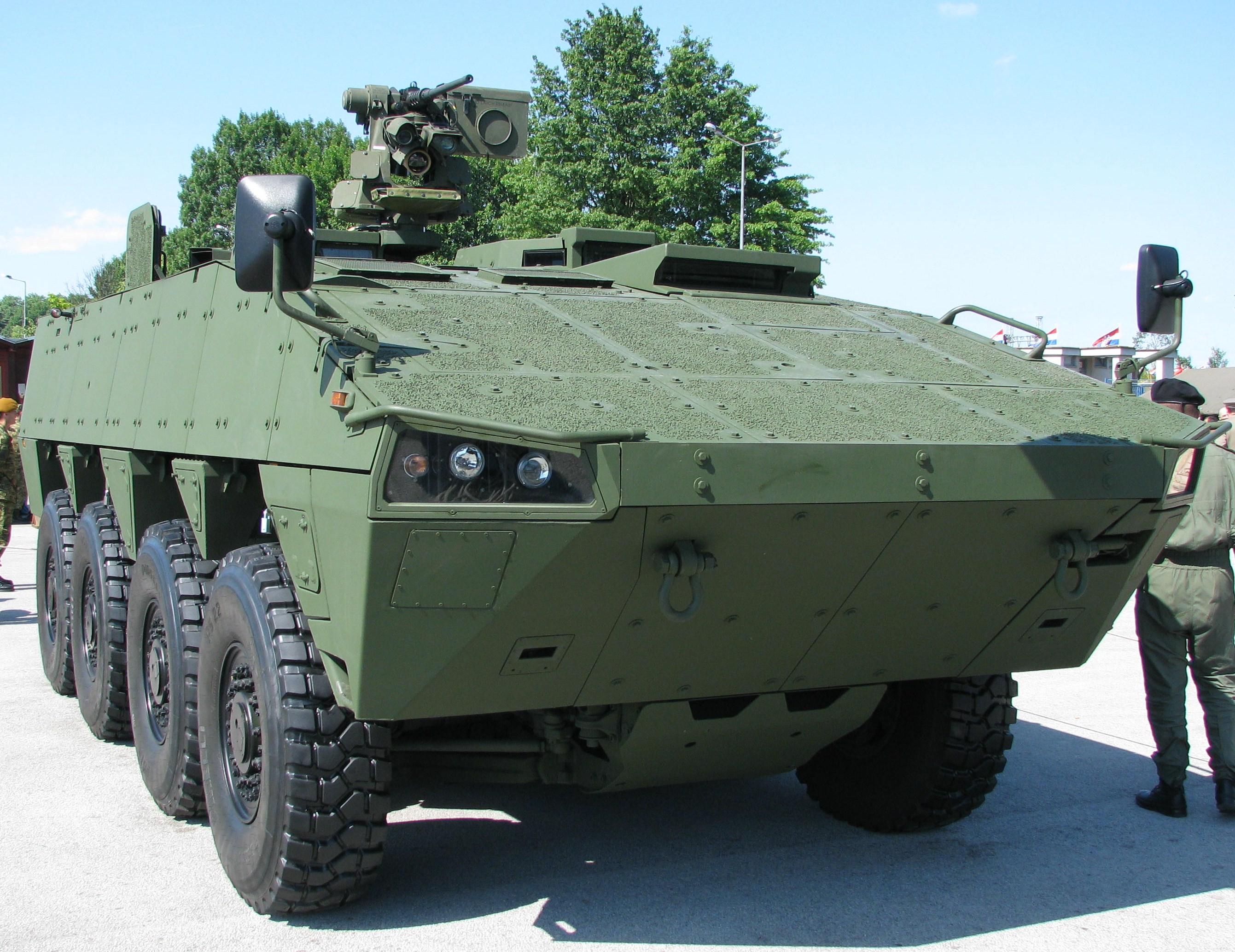 Croatian Patria AMV, Karlovac, 2009